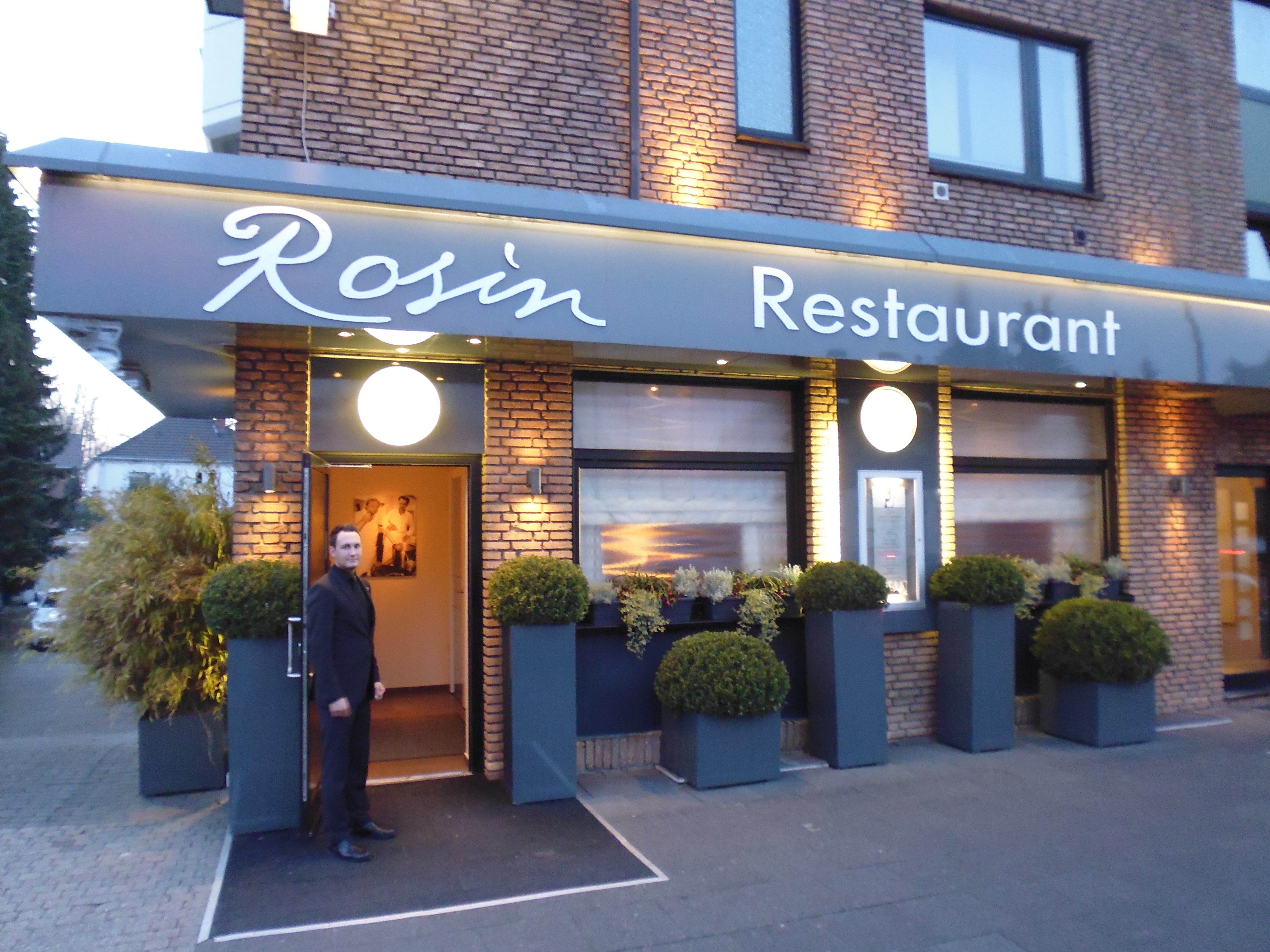 Rosins Restaurant March 2014